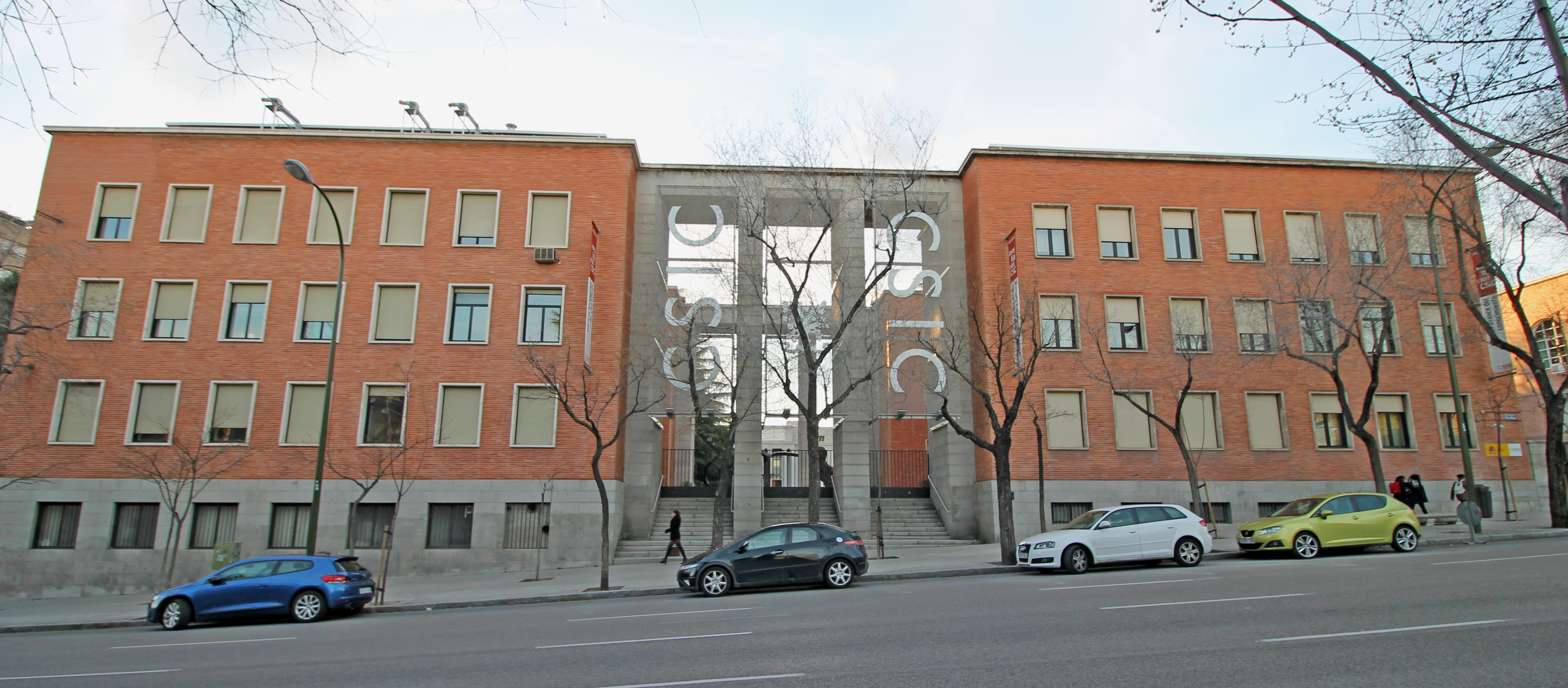 Façade of CSIC's Institute of Edaphology and Vegetable Physiology, at 113 Calle de Serrano (street) in Chamartín district in Madrid (Spain). Building designed in 1944 by Miguel Fisac.